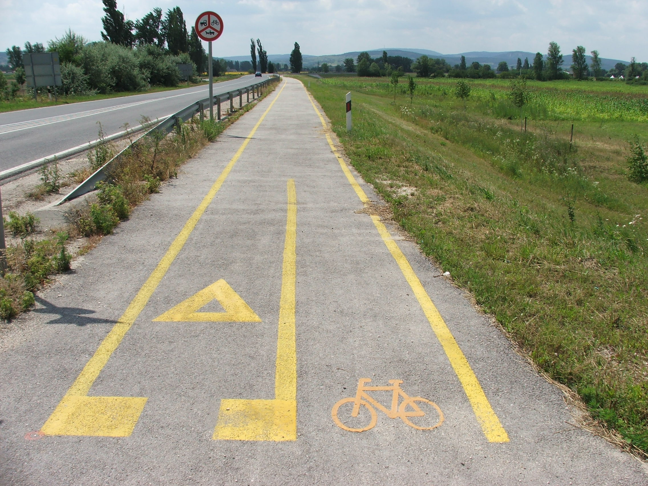 The Danube-Bikeway near Esztergom, Hungary